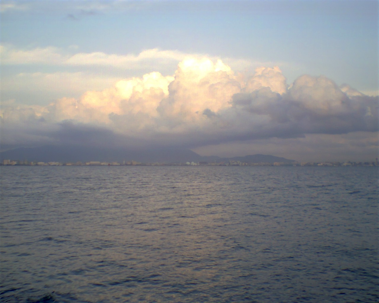 Hakata Bay (ja: 博多湾, Hakata-wan) in a part of the Fukuoka city. The bay is in the Fukuoka prefecture, surrounded by the Itoshima Peninsula and the Shikanoshima and part of the Fukuoka city. Taken by uploader (User:Histwr) and is also used on here. (June 21, 2006)